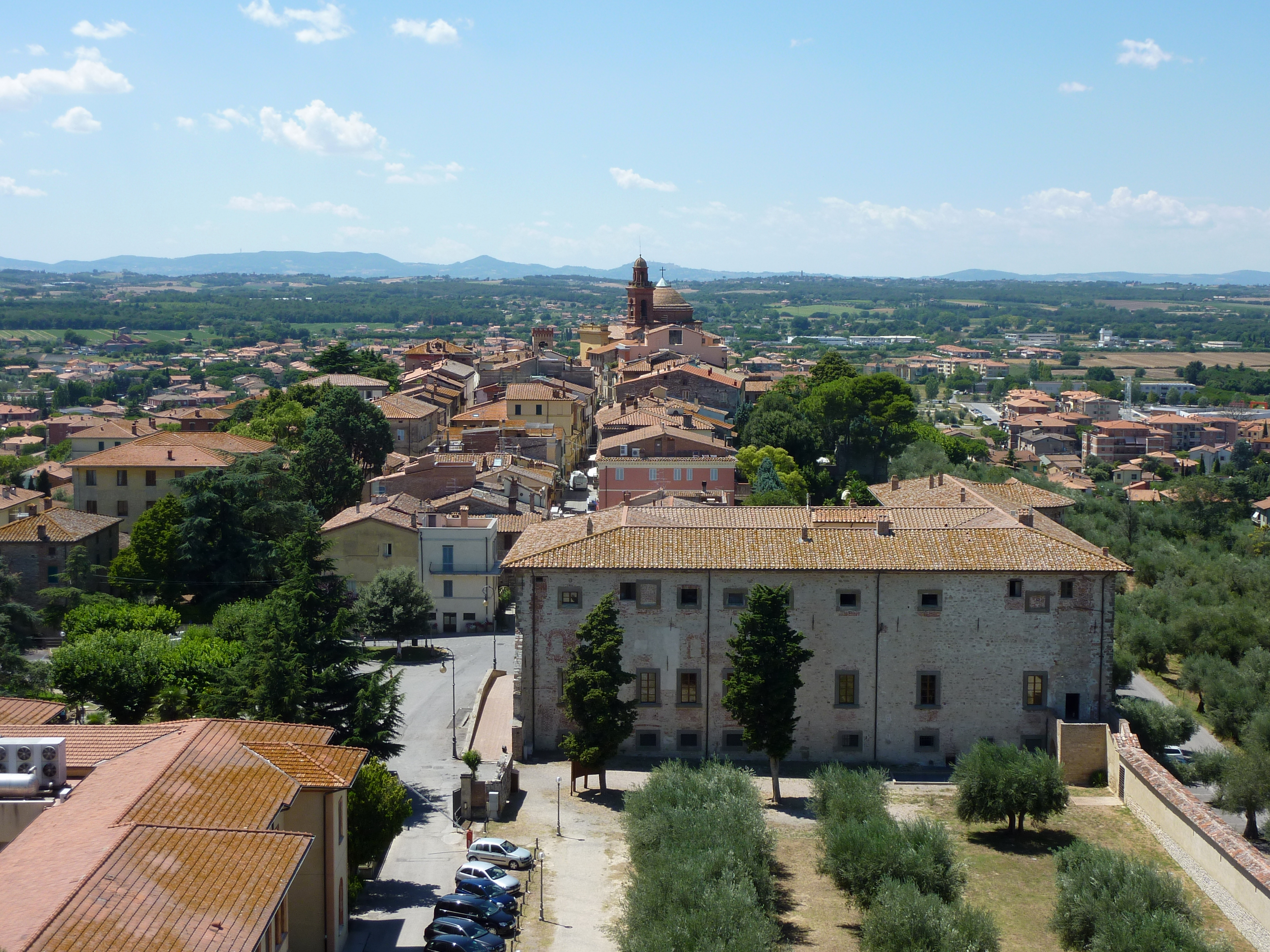 Old town of Castiglione del Lago and surrounding, seen from the fortress.